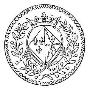 Catherine de Bourbon